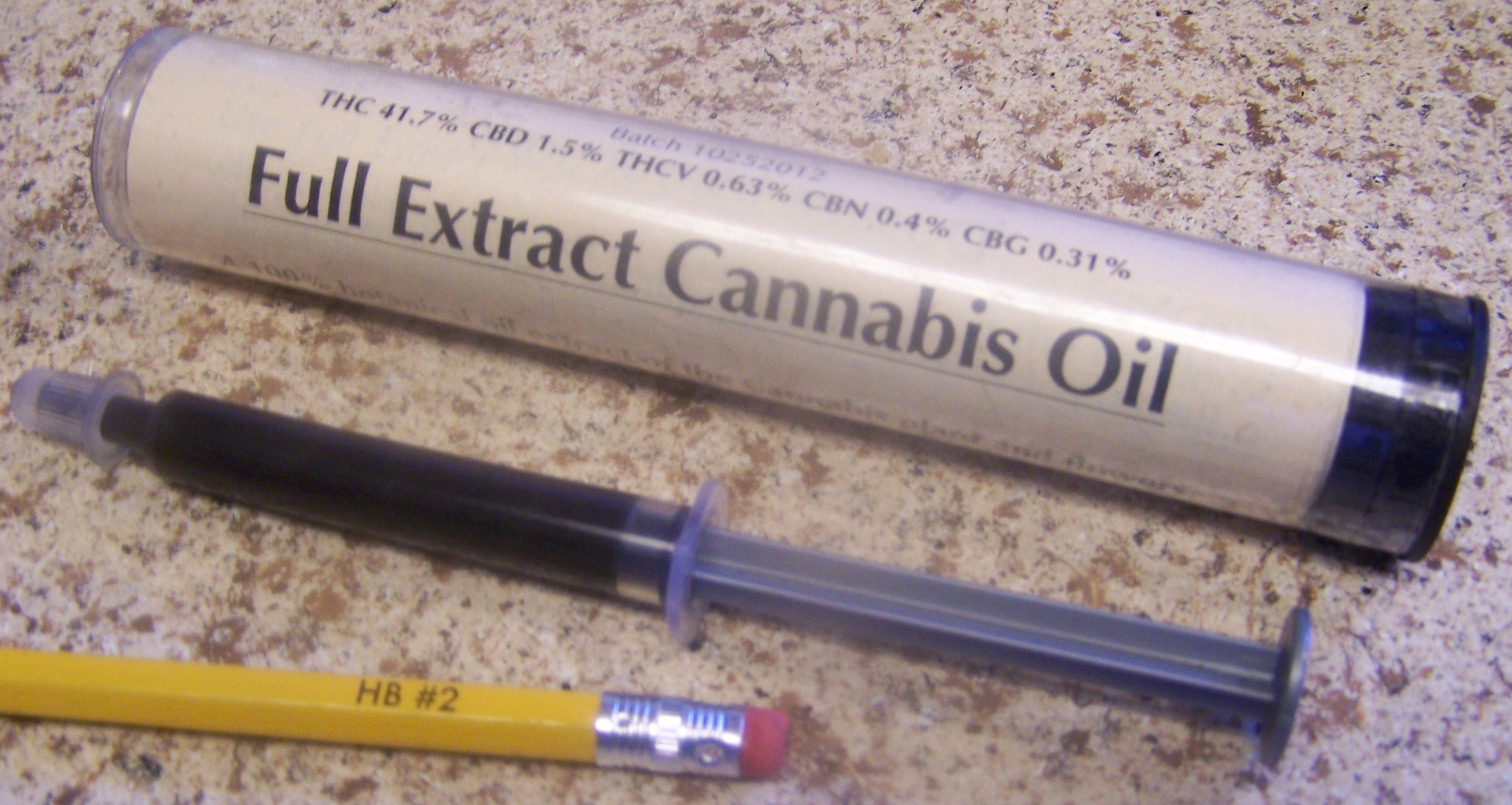 Cannabis oil extract 3.5 grams in oral syringe with package container.